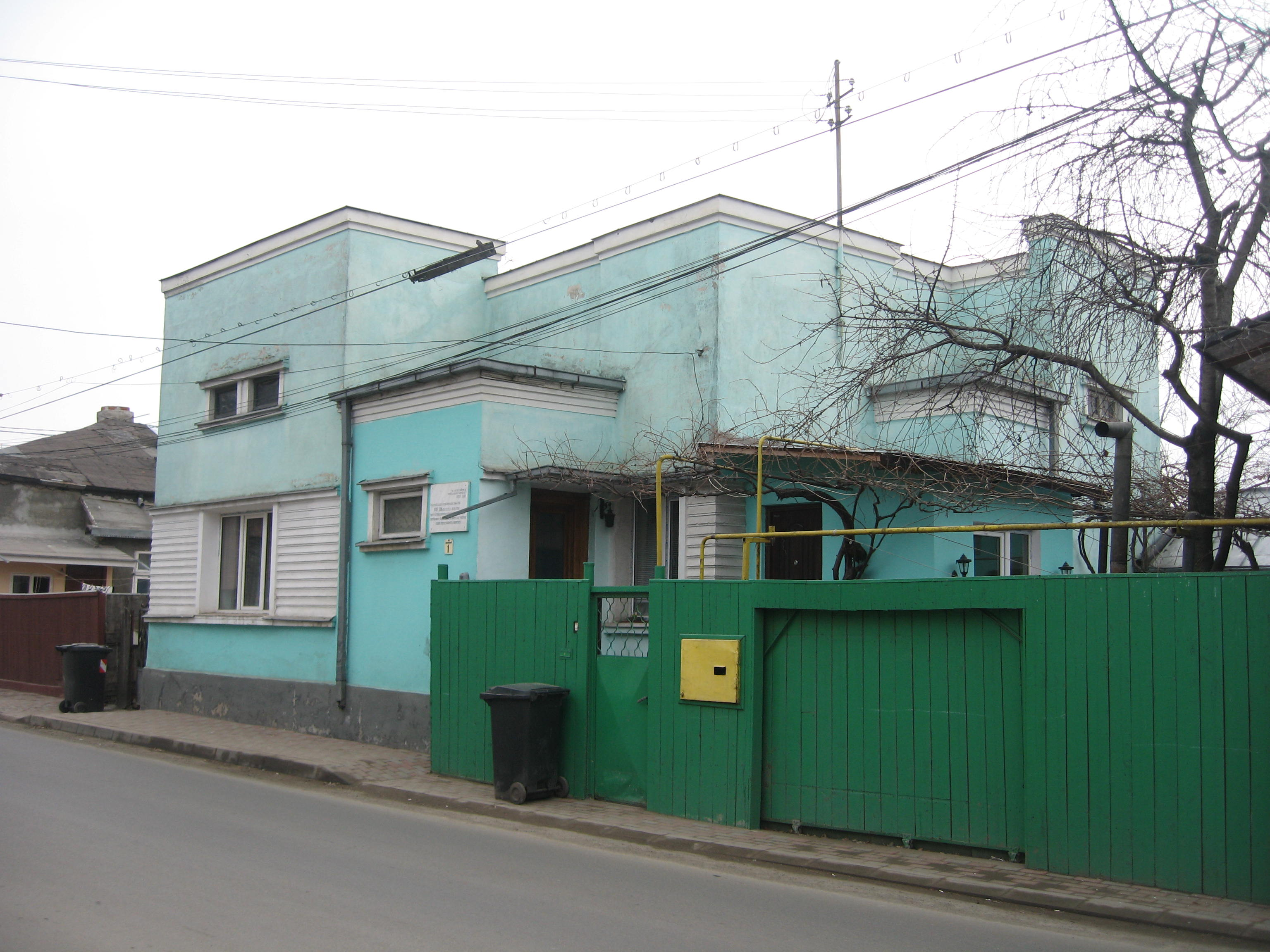 House of Iosif Sava in Iaşi